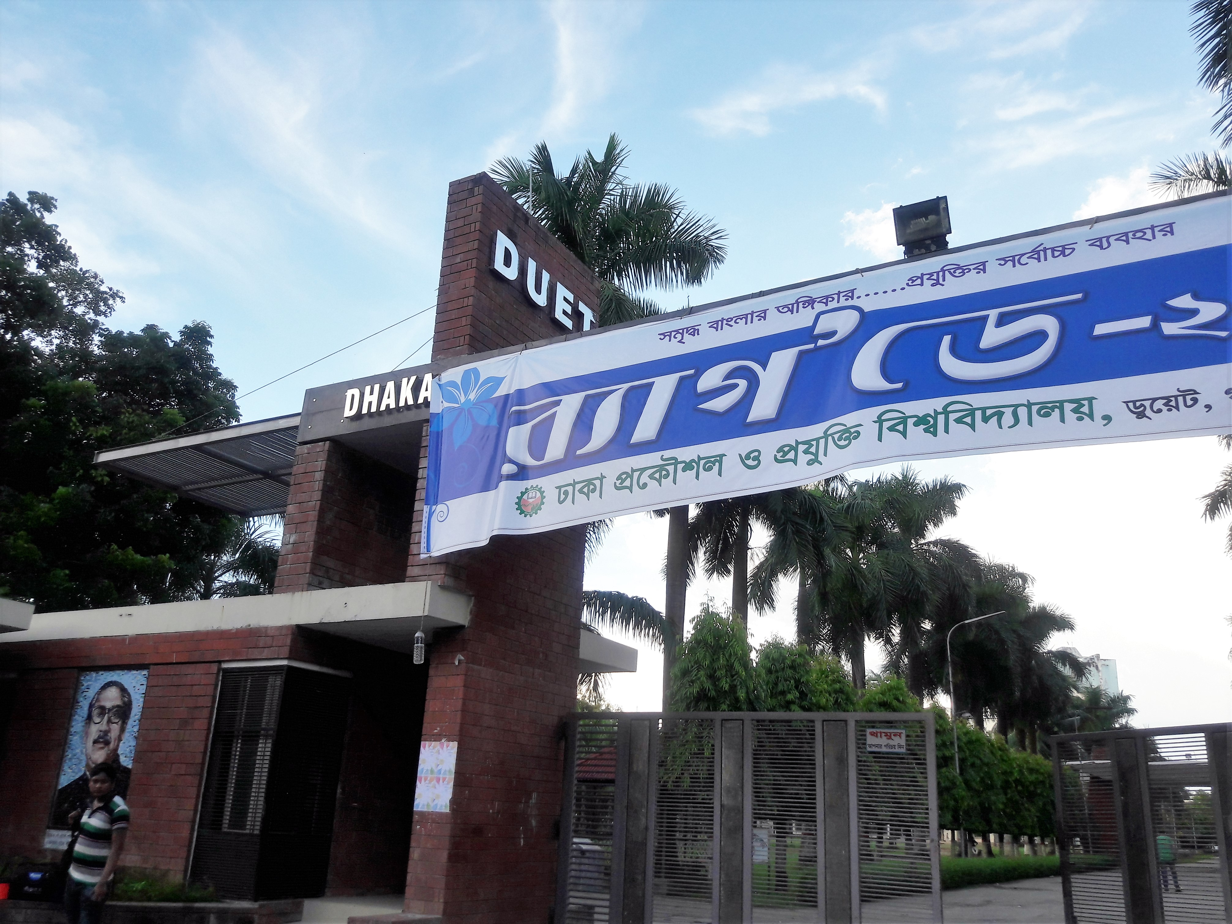 Dhaka University of Engineering & Technology, Gazipur or DUET, Gazipur is a public university for the study of engineering in Bangladesh.